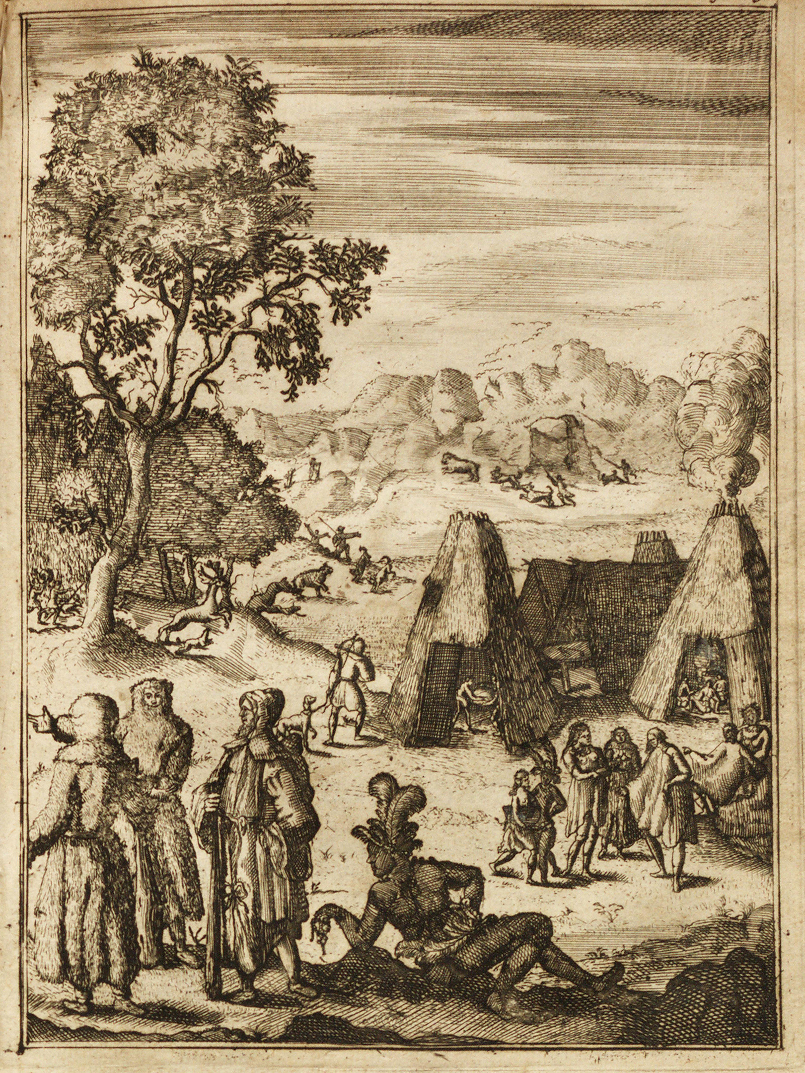 Illustration of dress, in the Dutch edition of Louis Hennepin, Description de la Louisiane